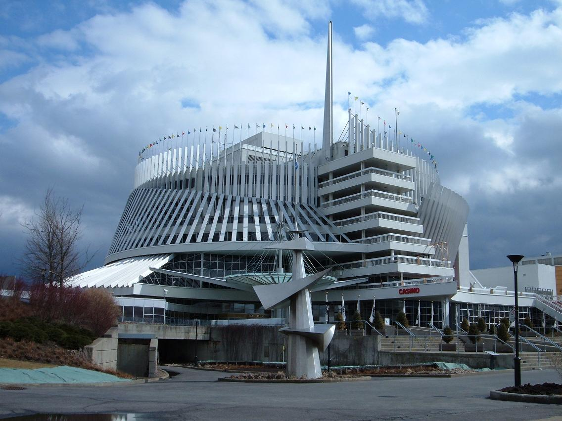 Taken in April of 2005 by Helder Victorino.